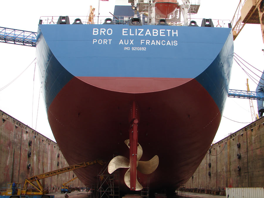 The oil/chemical tanker Bro Elizabeth in dry dock in Brest. IMO Number: 9210892